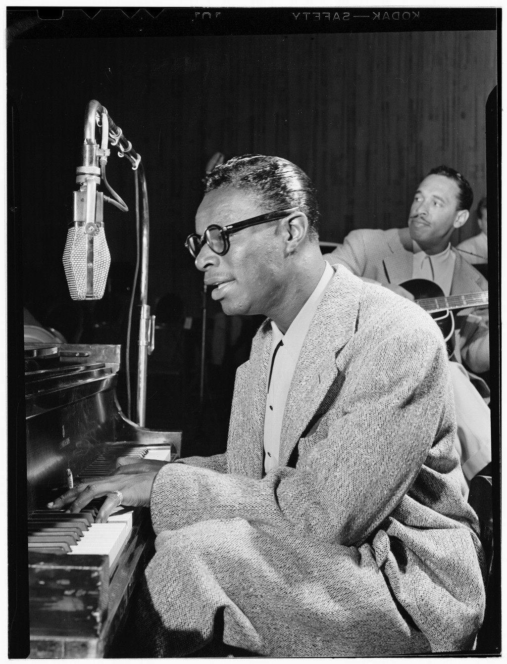 Nat King Cole and Oscar Moore, New York, N.Y., ca. July 1946 (Photograph by William P. Gottlieb)